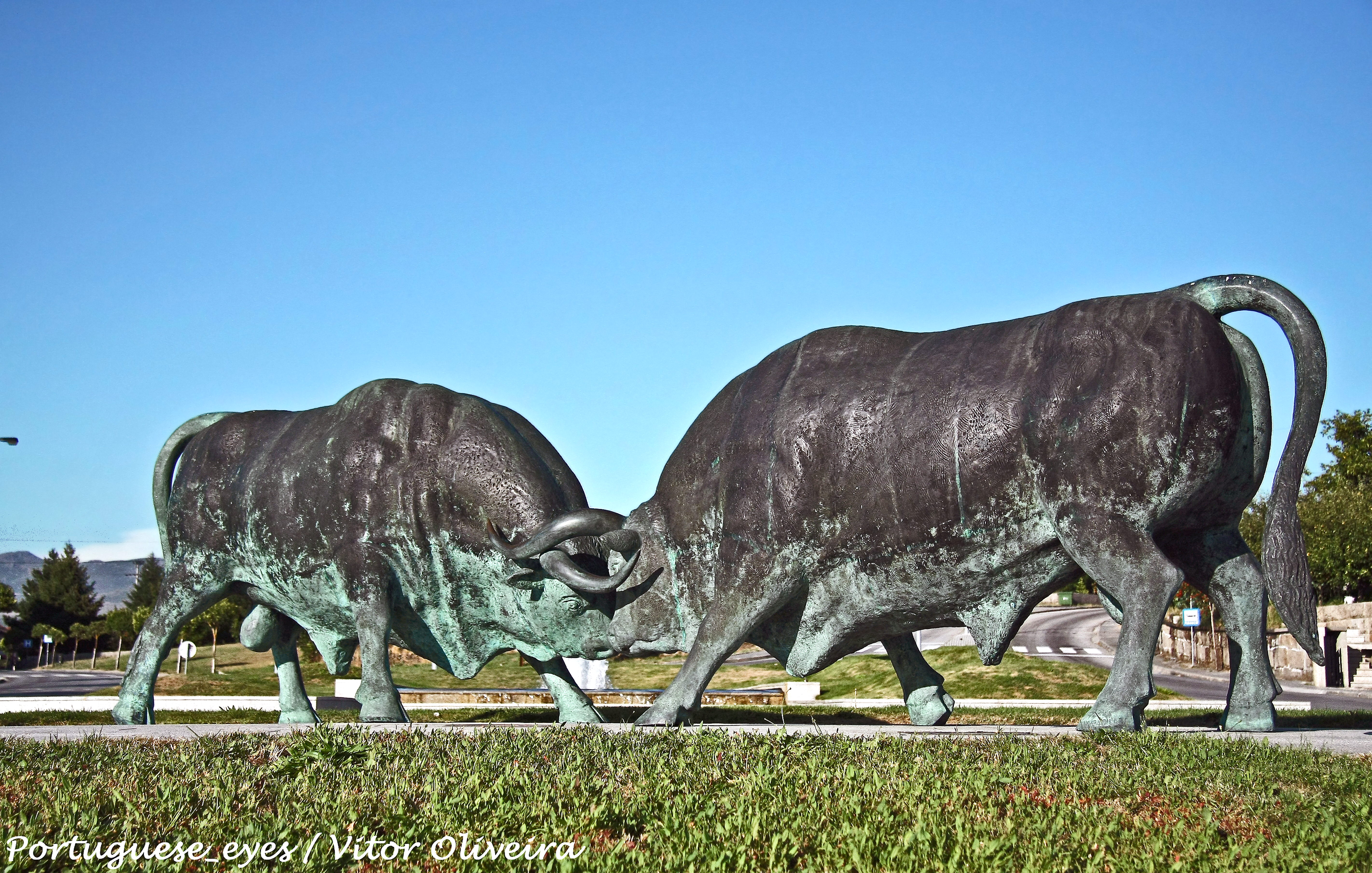 See where this picture was taken. [?]